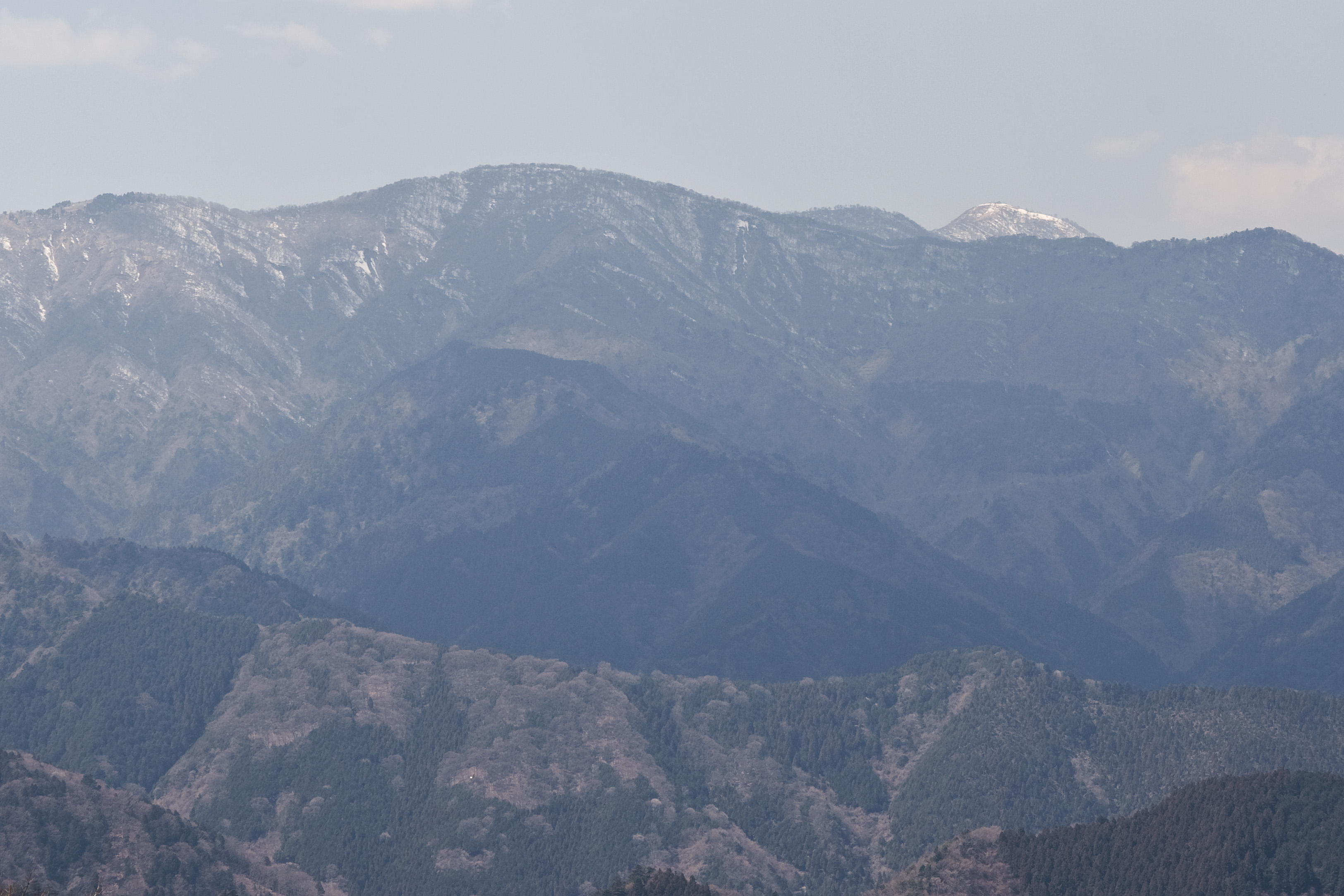 Mt.Tanzawa seen from Mt.Oyama-Mitsumine, Mts.Tanzawa, Honshu, Japan.